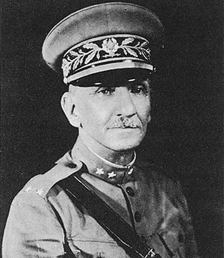 Isidoro Dias Lopes 1920s